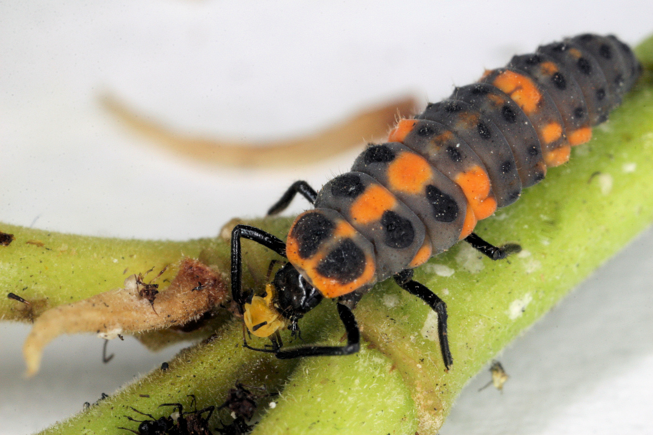 Lady beetle larva eating an aphid